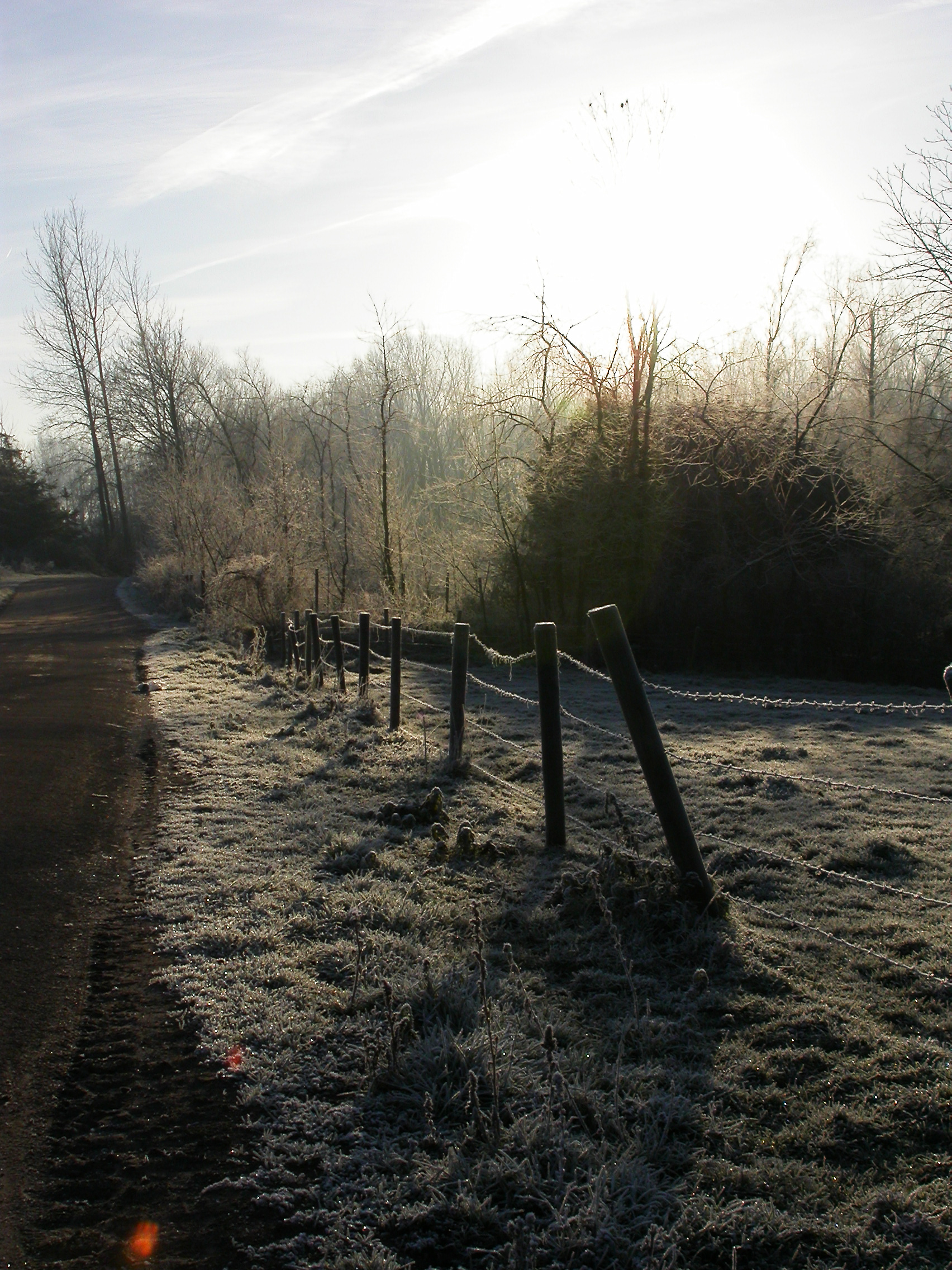 Part of the Gratiebossen/Berlare Broek forest, seen from the Jan Praetstraat.